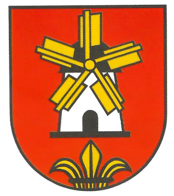 Dorfwappen Wendhausen